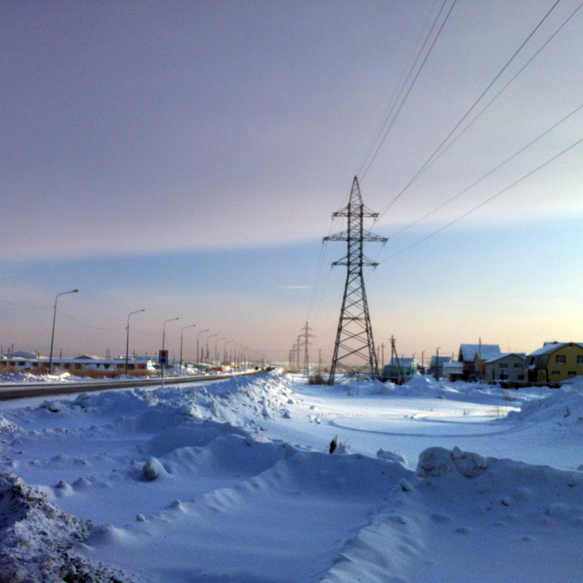 North Outskirts of Salekhard. Road to Aksarka.